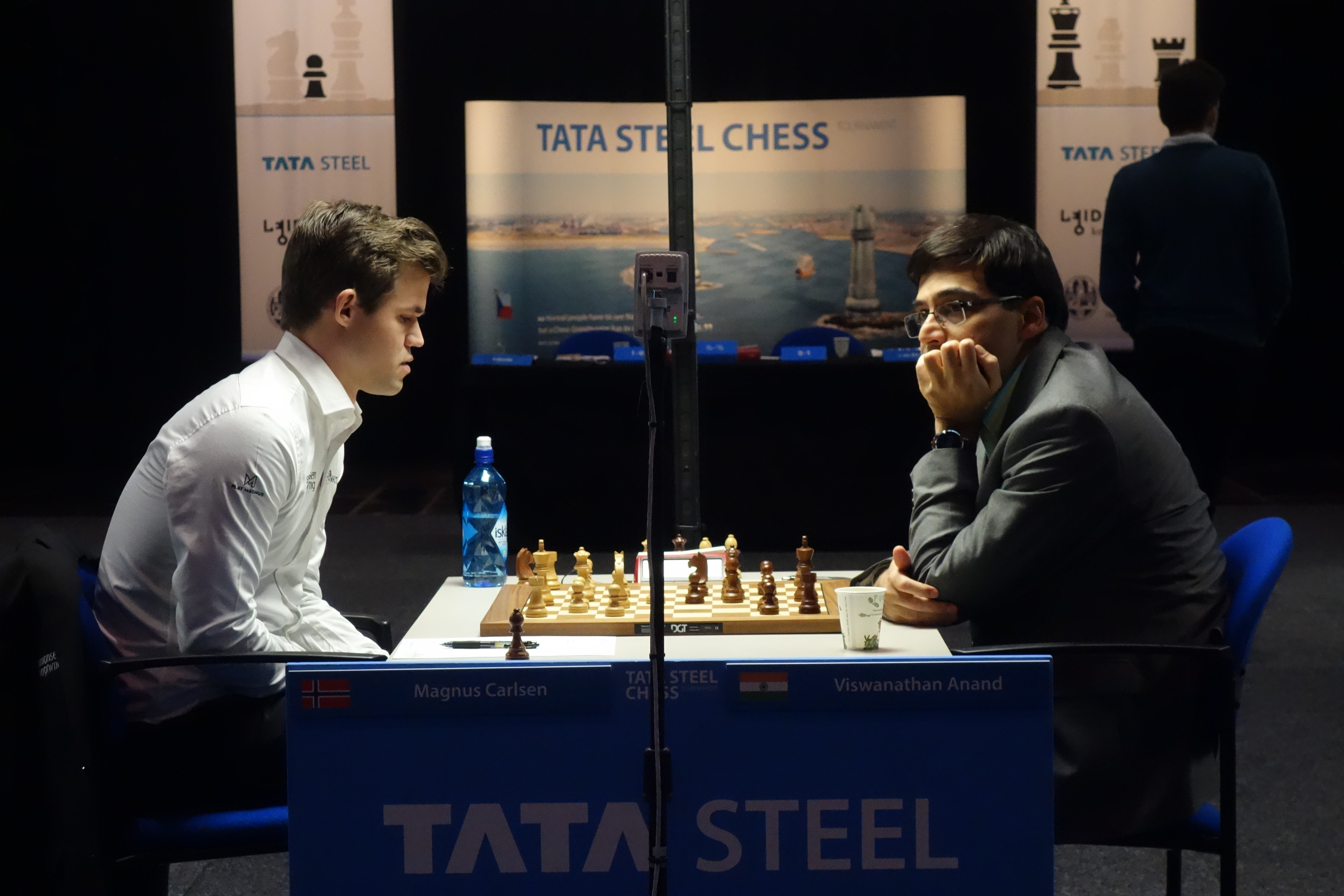 Tata Steel Chess Tournament in Pieterskerk, Leiden, the Netherlands, 23 January 2019. Magnus Carlsen vs. Viswanathan Anand